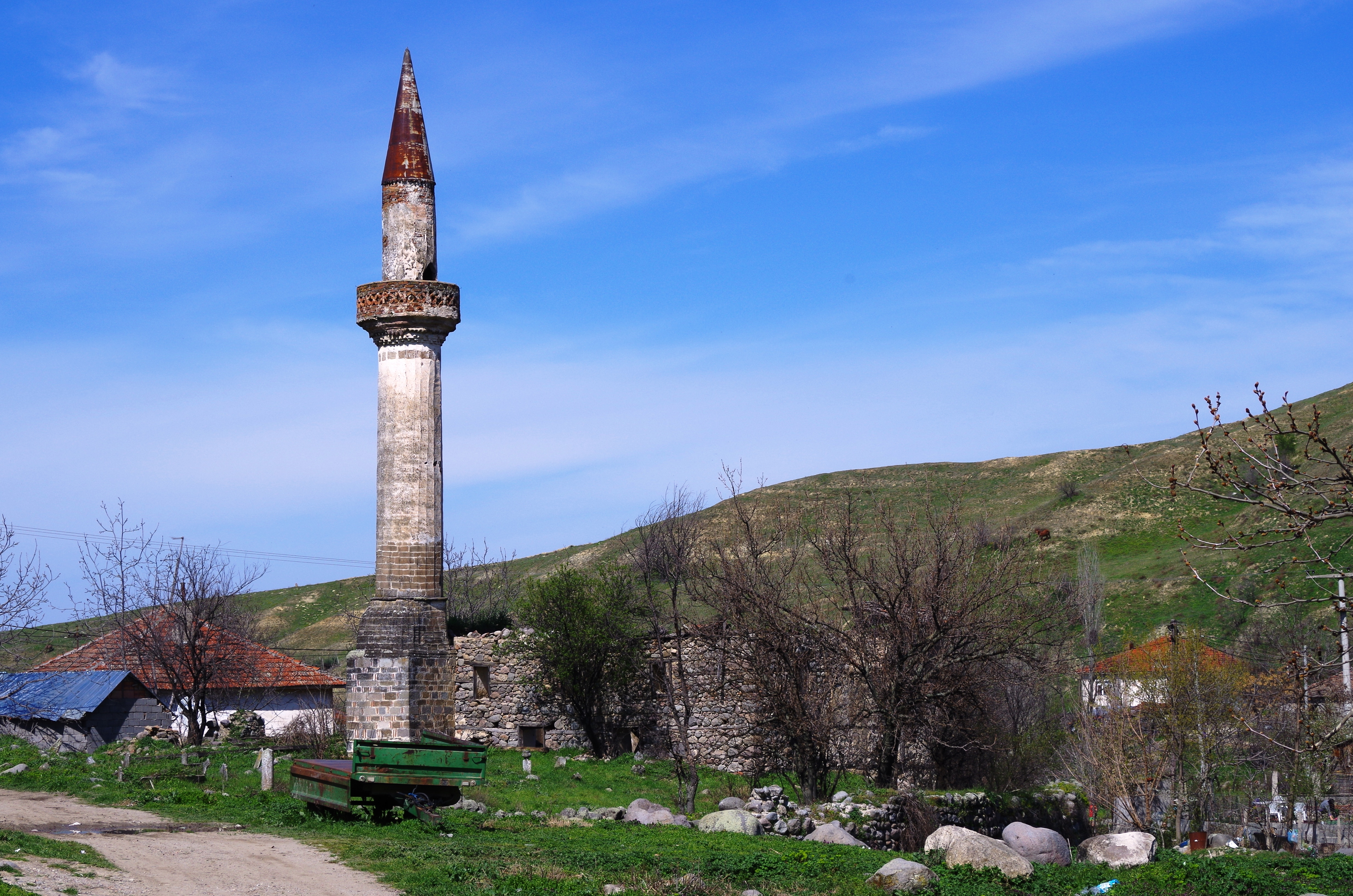 Former mosque in Dolni Disan